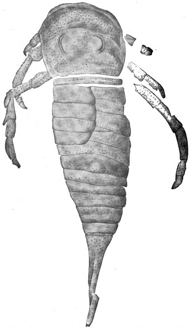 Drepanopterus pentlandicus Laurie. Original figure. (From Laurie) The Eurypterida of New York. Volume 1. New York State Museum Memoir 14, figure 69